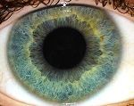 Close-up of a gray eye